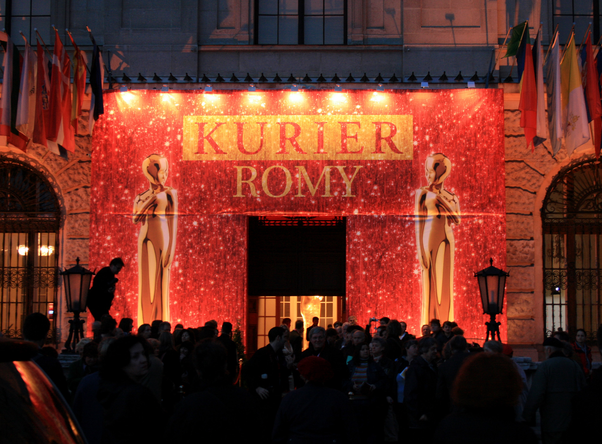 Romy TV awards (Hofburg Imperial Palace in Vienna)